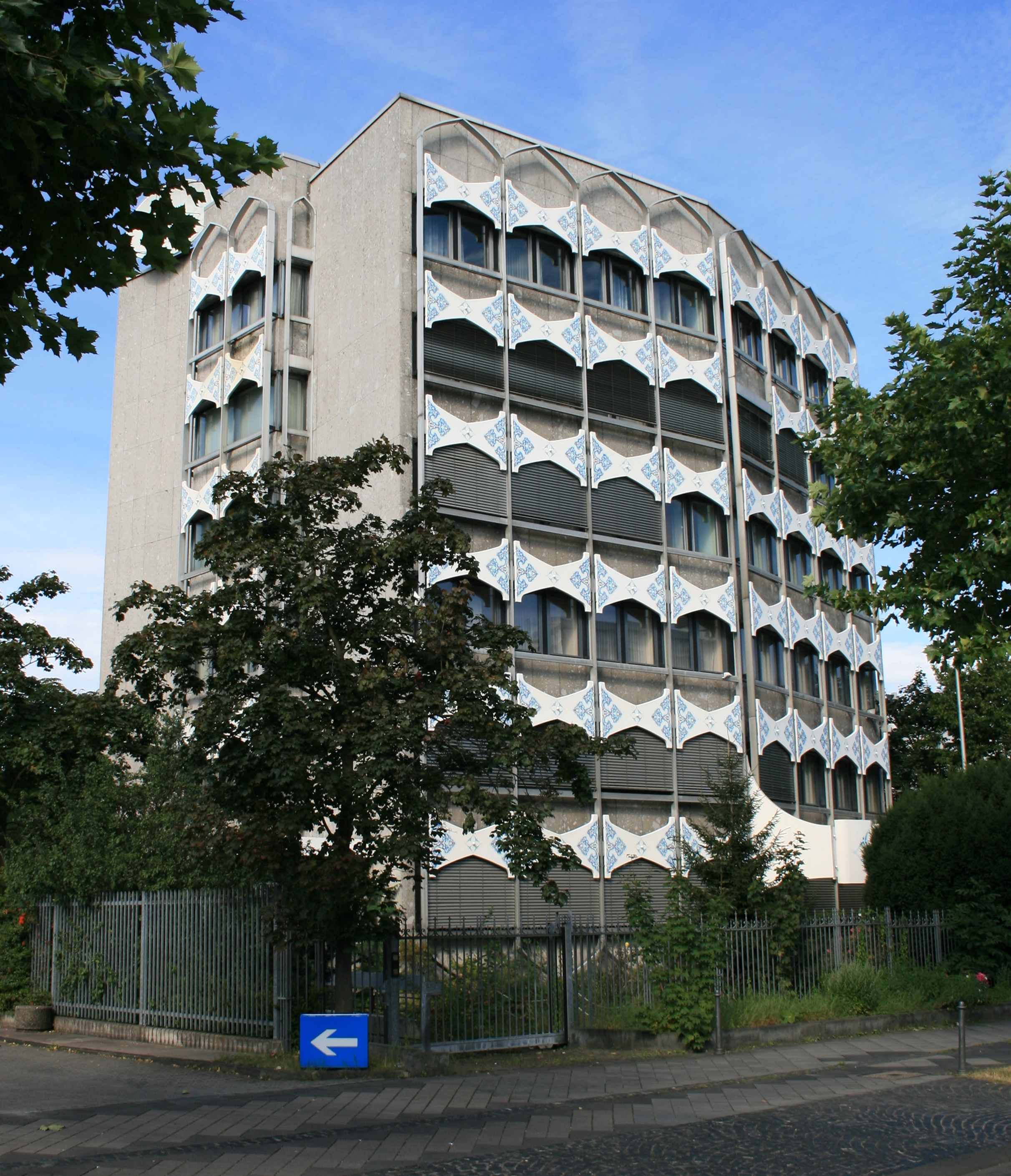 The (former) German Embassy of the Islamic Republic of Iran after years of vacancy (since 2000) in Bonn-Friesdorf